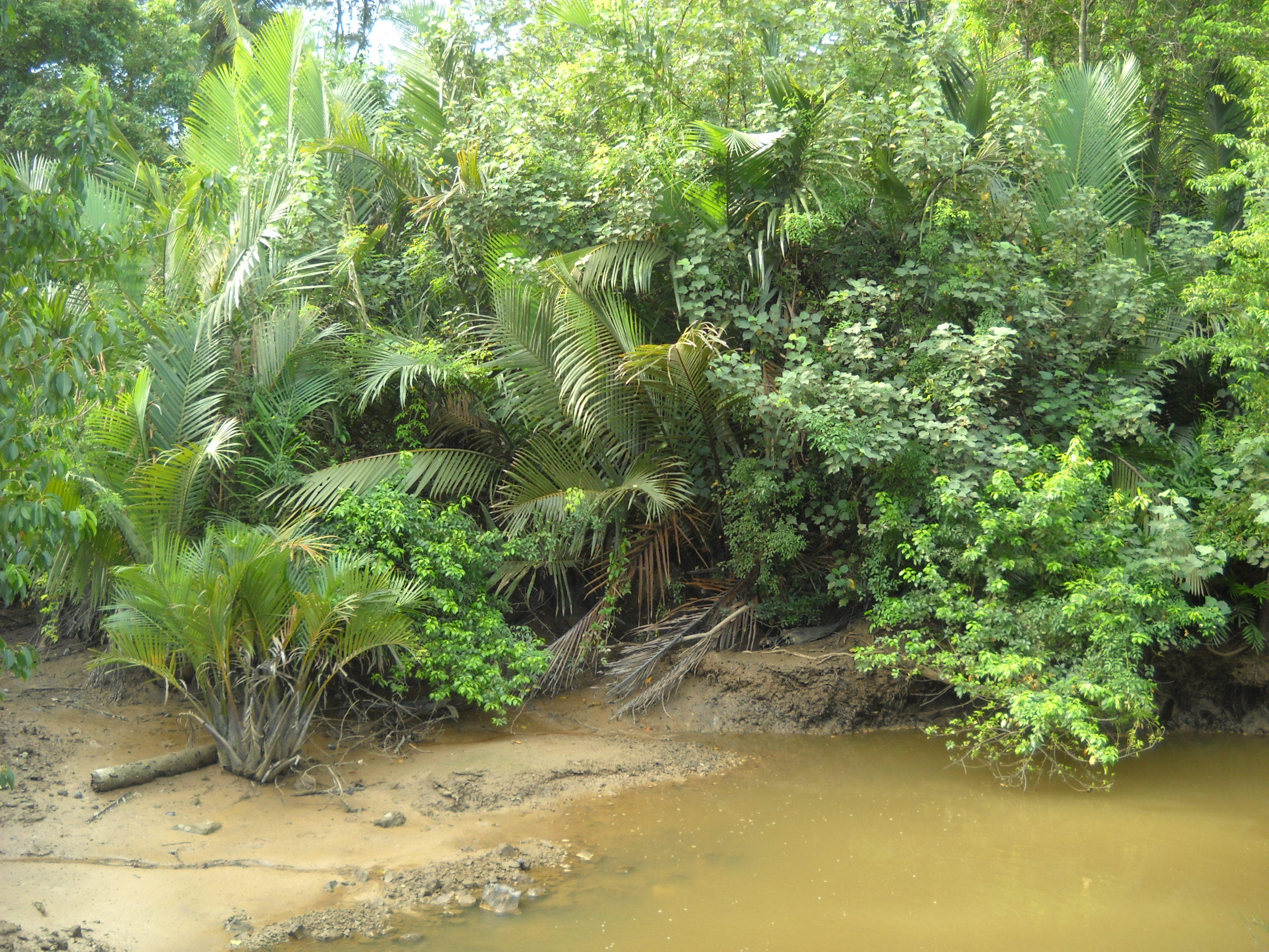 Marsh vegetations in Bangka Island's marshes.